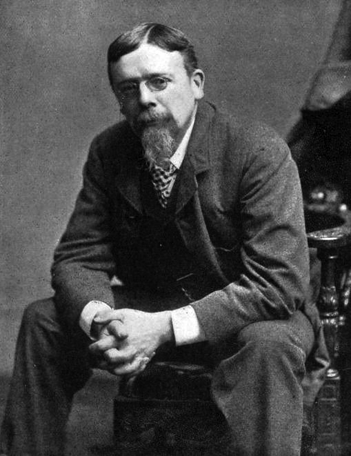 British cartoonist and writer George Du Maurier